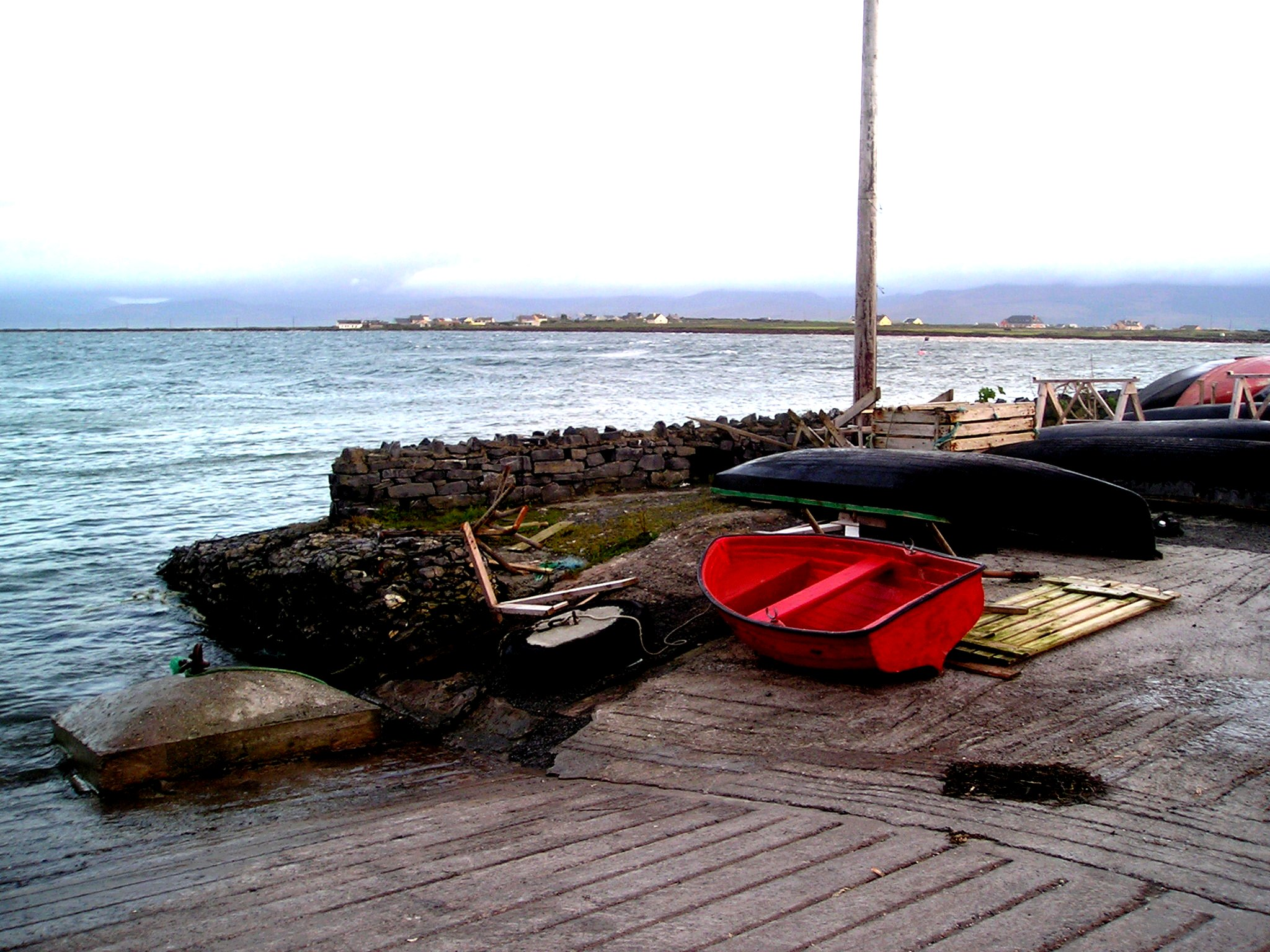 Dockside south of Castlegregory